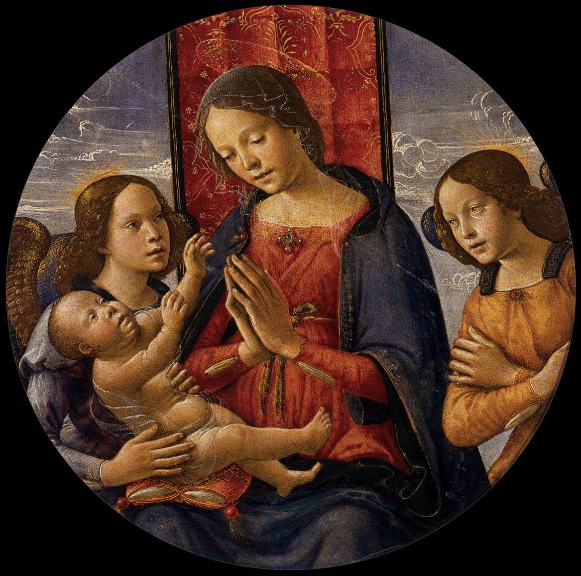 Sebastiano_mainardi, Virgin Adoring the Child with Two Angels, Panel, diameter 32 cm, Collezione Vittorio Cini, Venice